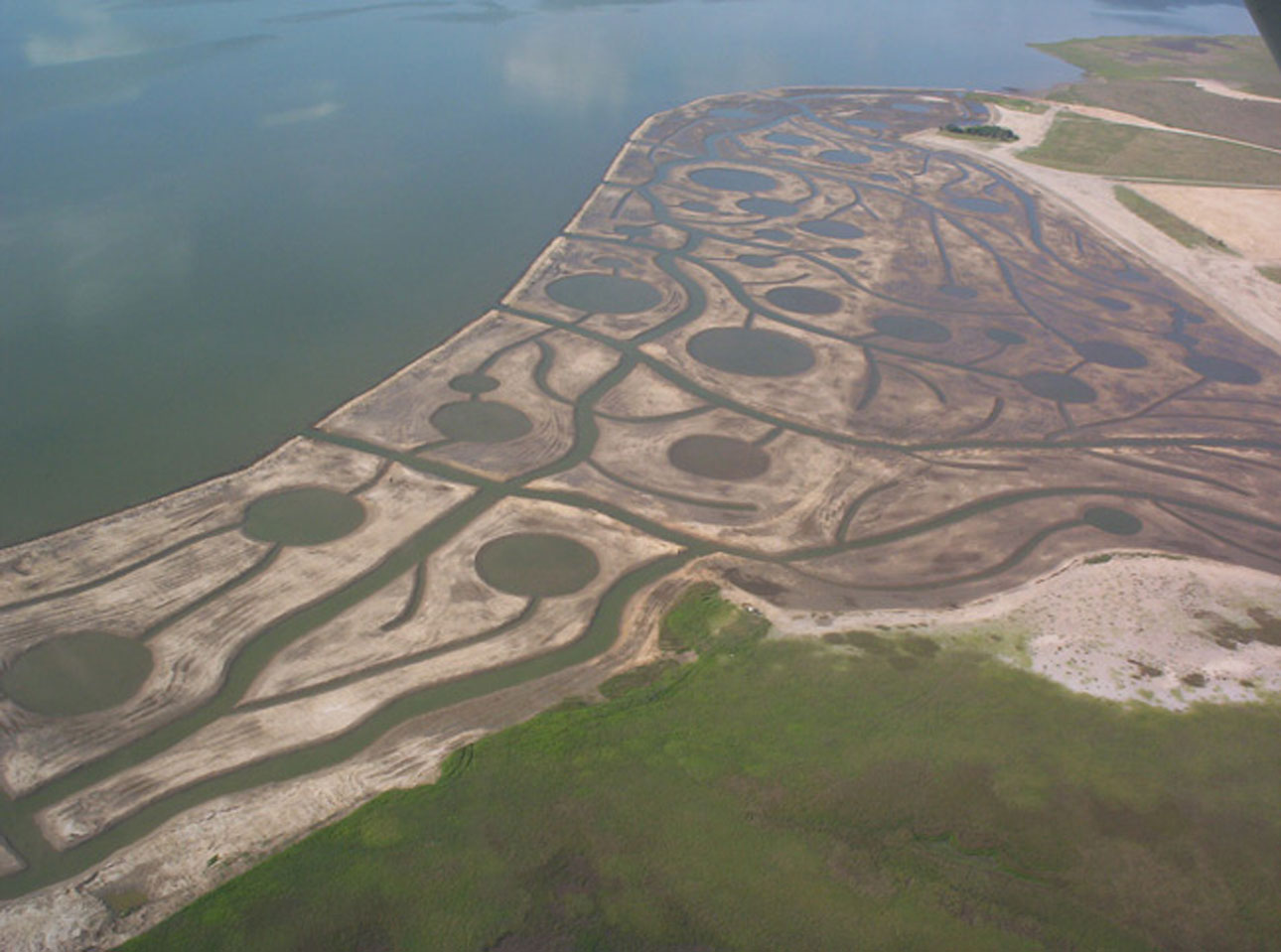 Seventy acres of salt marsh were created in Lavaca Bay, Texas, as a result of a cooperative natural resource damages settlement with NOAA, co-trustees, and Alcoa, using the latest science from the NOAA Galveston Laboratory. As part of Aransas National Wildlife Refuge, this new marsh adds to the foraging area of endangered whooping cranes. To learn more about natural resource restoration, visit: Office of Response and Restoration Natural Resource Restoration Restoration Plan for Delaware River Announced (Original source: National Ocean Service Image Gallery )